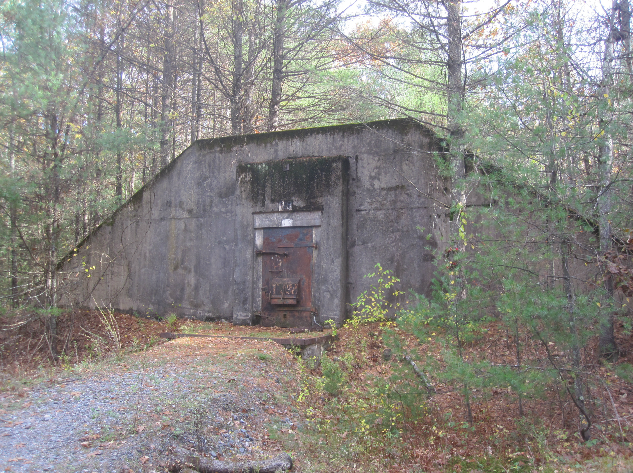 Picture of a bunker at the Assabet River National Wildlife Refuge